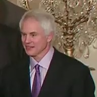 Los Angeles Lakers general manager Mitch Kupchak visits the White House with the Lakers on January 25, 2010 in honor of the Lakers' 2009 NBA championship.